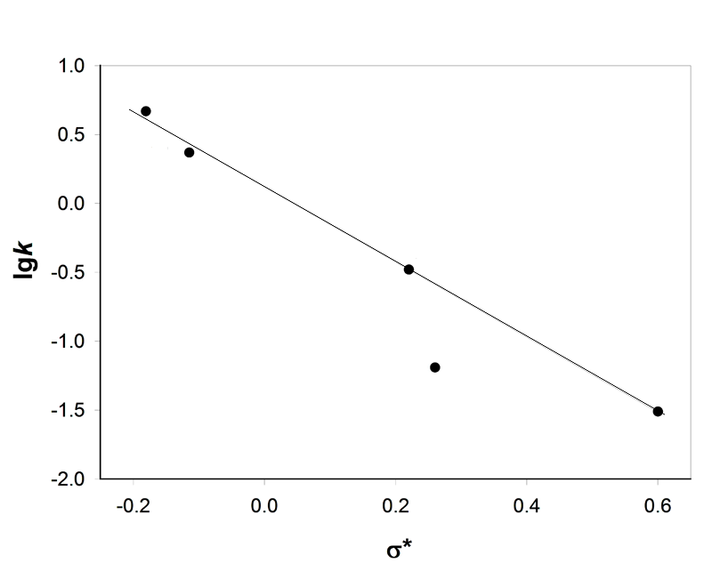 Taft equation